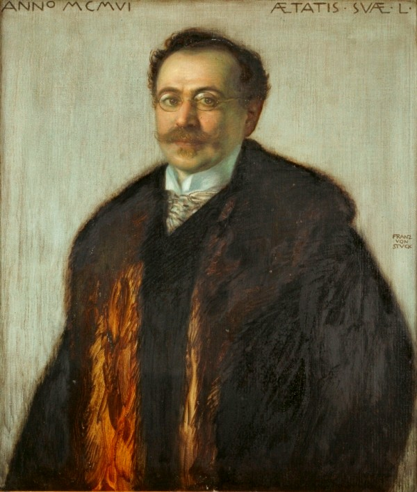 Leo Graetz (1856-1941), Oil on Canvas, 1906